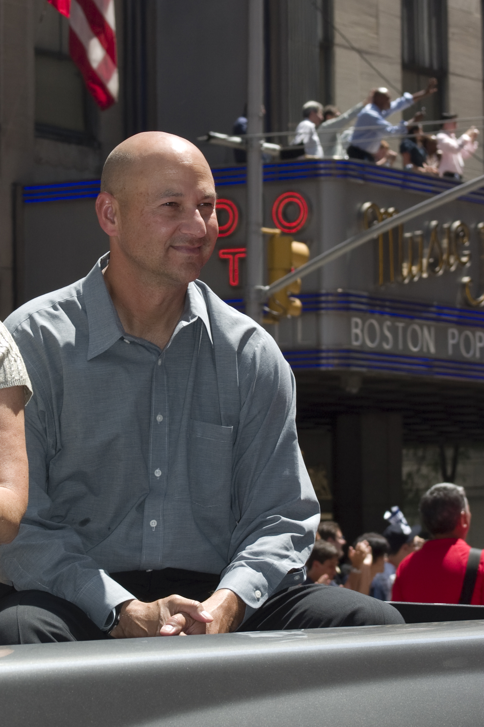 Baseball player Terry Francona. © Rubenstein, photographer Martyna Borkowski